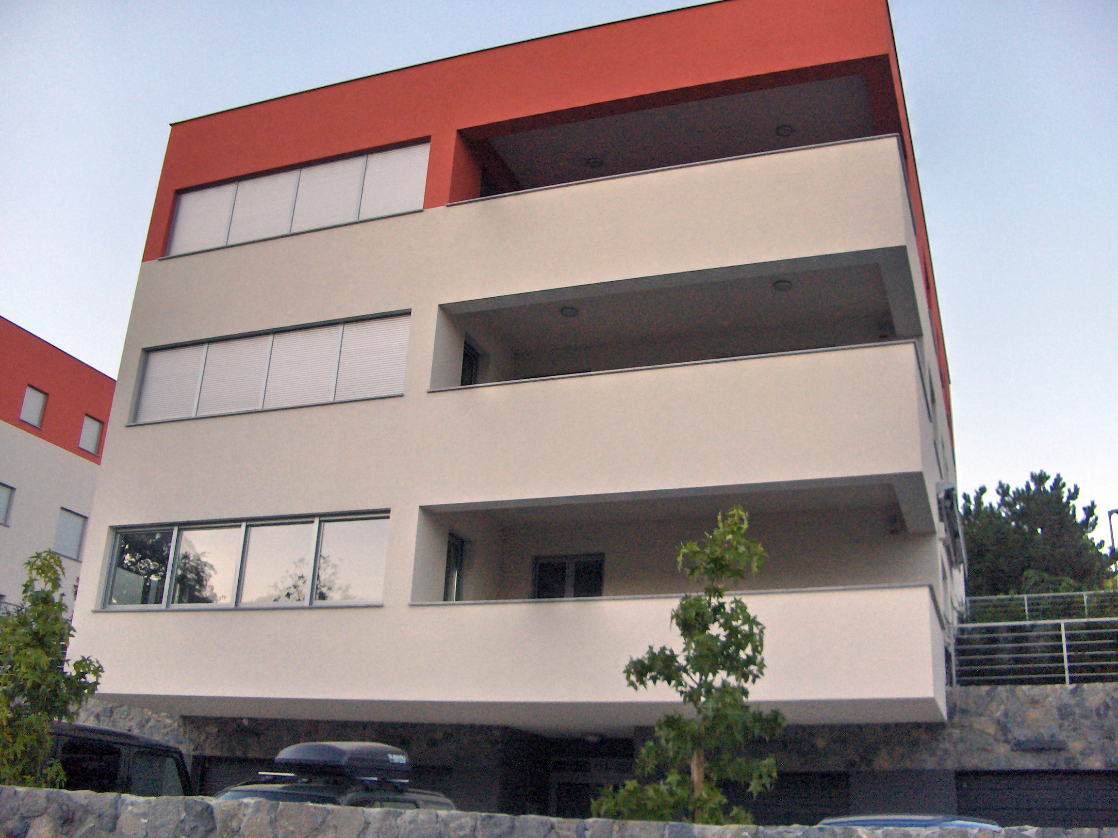 A digital home in the Babonićeva Street, Šalata neighborhood of Zagreb, Croatia